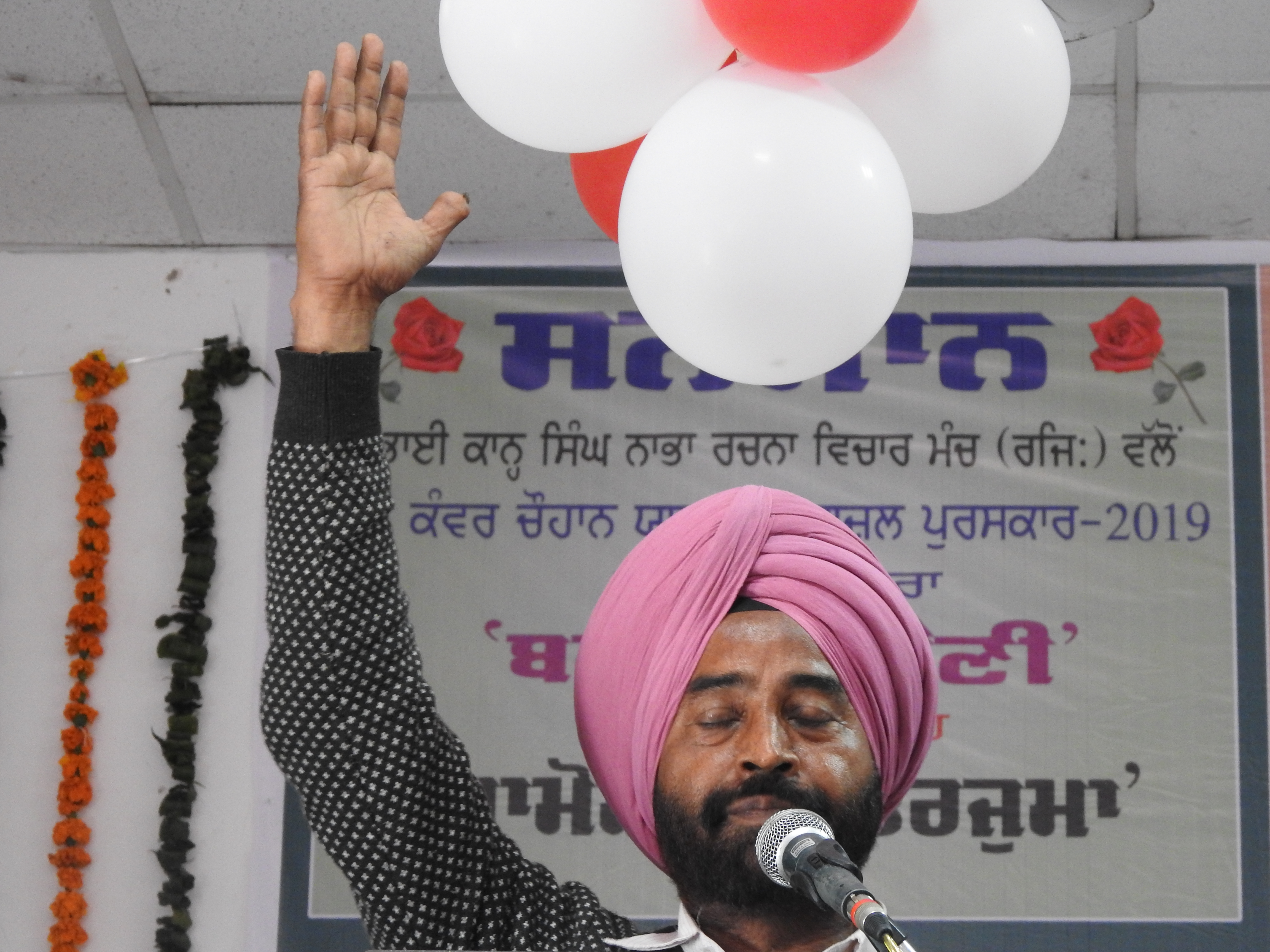 Jagseer Jida ,Punjabi poet /Singer